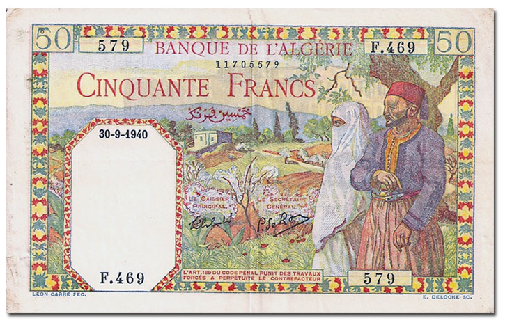 50 Algerian francs 1940 obverse side